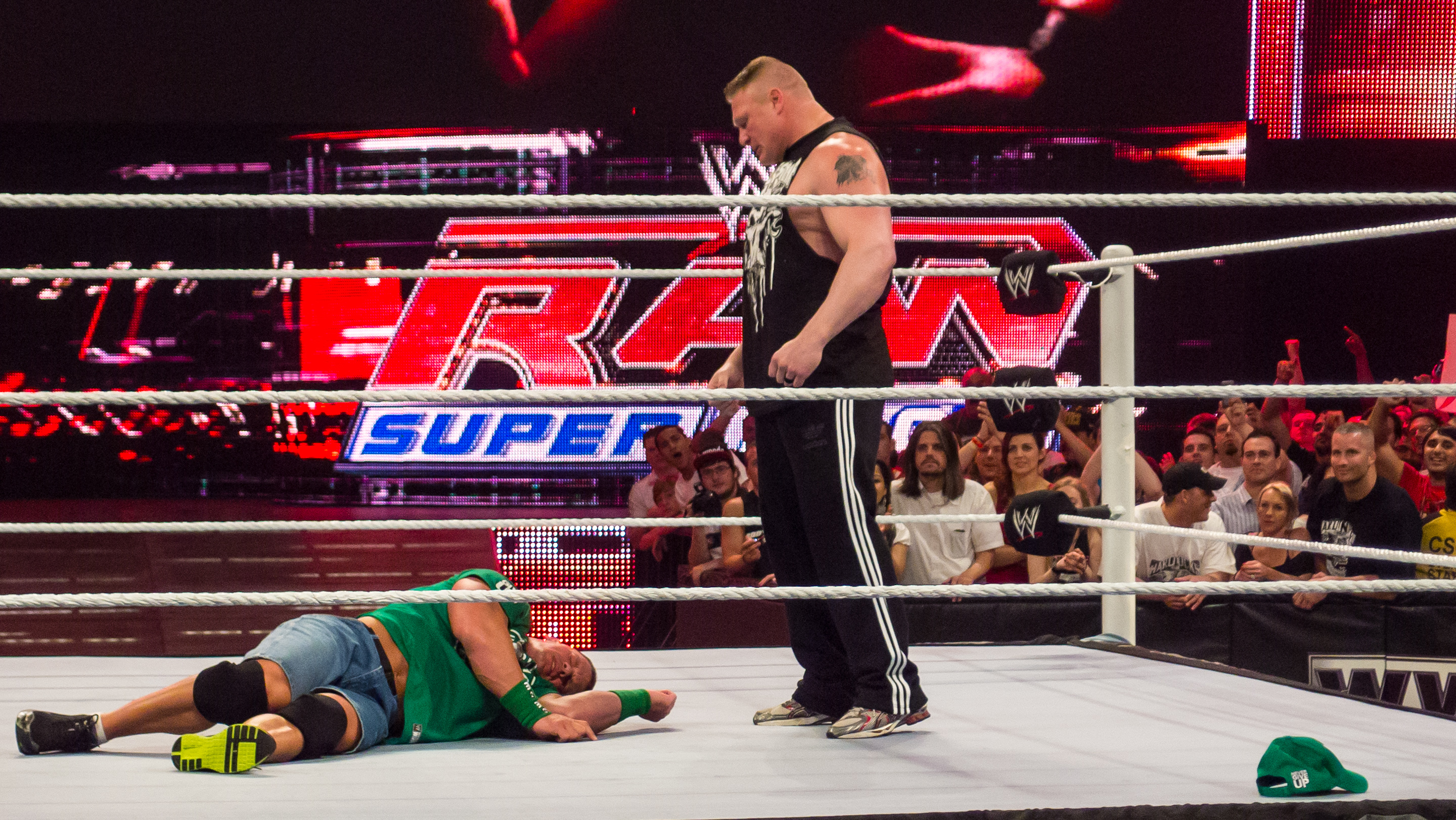 John Cena and Brock Lesnar at Raw, Miami, 2 April 2012